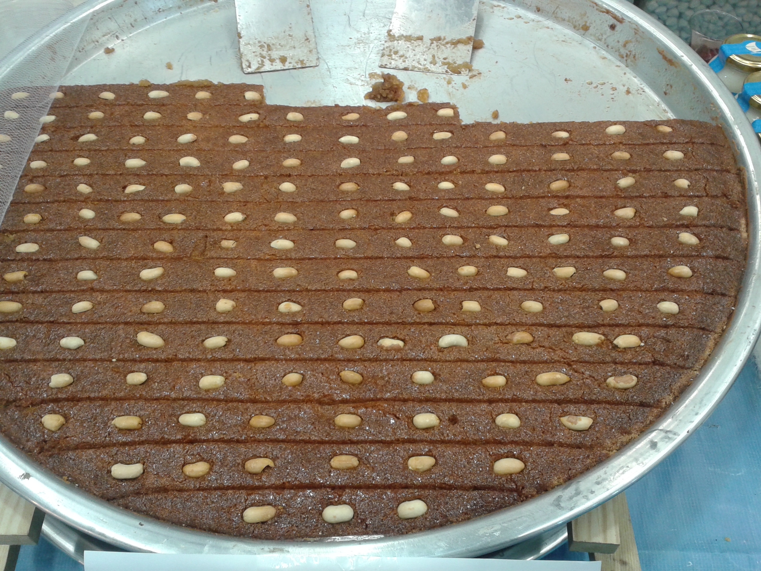 The famous, traditional "şambali" of Turkey, in Ankara.